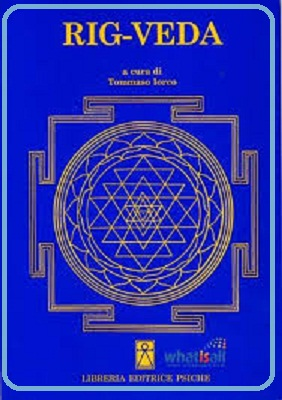 Rig veda